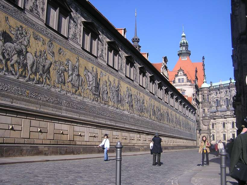 Dresden’s Fürstenzug